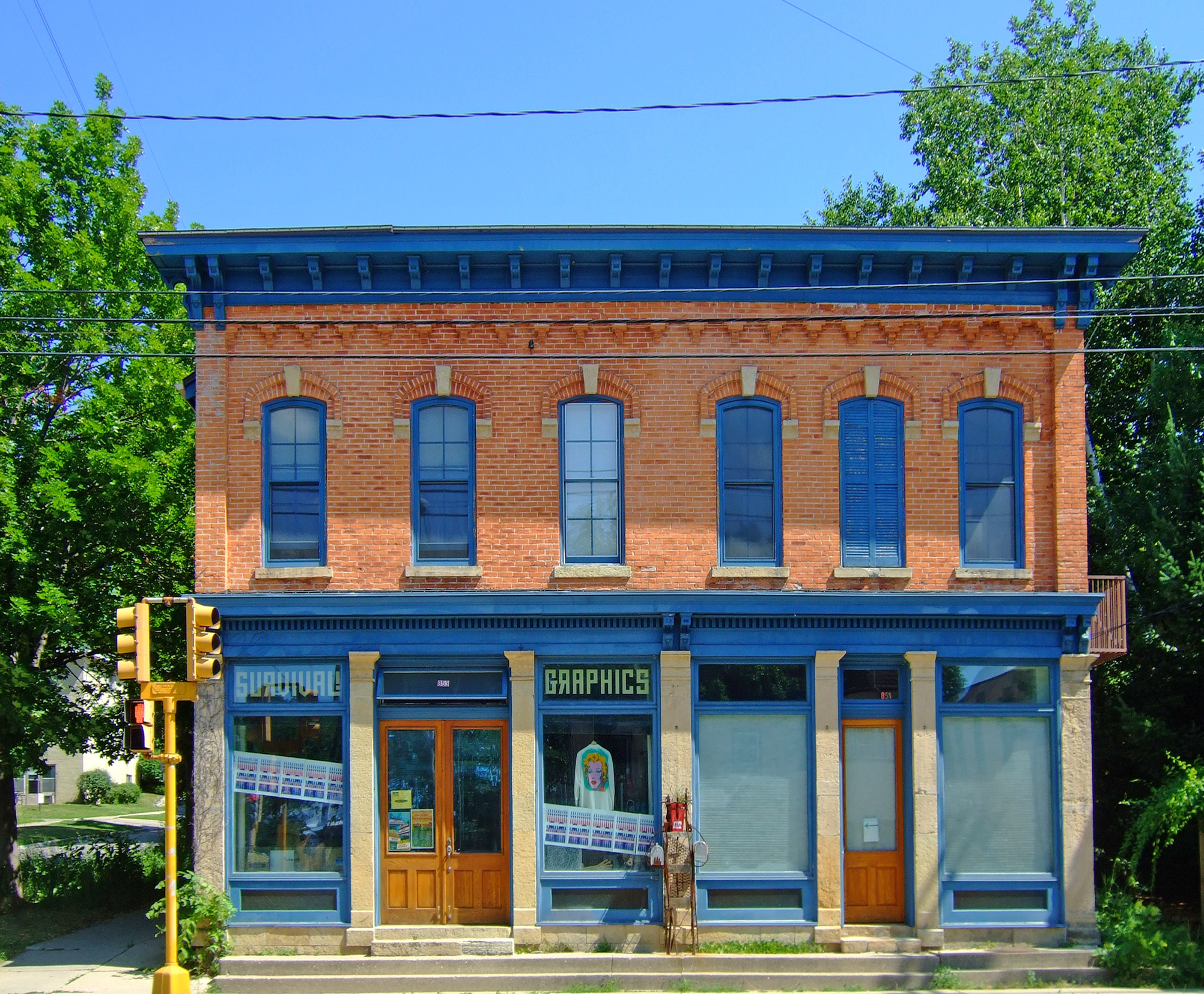 The Biederstaedt-Breitenbach Grocery at 851-853 Williamson Street in Madison, Wisconsin, replaced an earlier structure at this site. It was built by Charles Biederstaedt as a saloon and grocery in 1874, and in 1891, Bavarian immigrant George C. Breitenbach took over the store. A store with a residence above was a common pattern in 19th-century Madison. Built of brick in a high Victorian Italianate mode, it was added to the National Register of Historic Places in 1982.